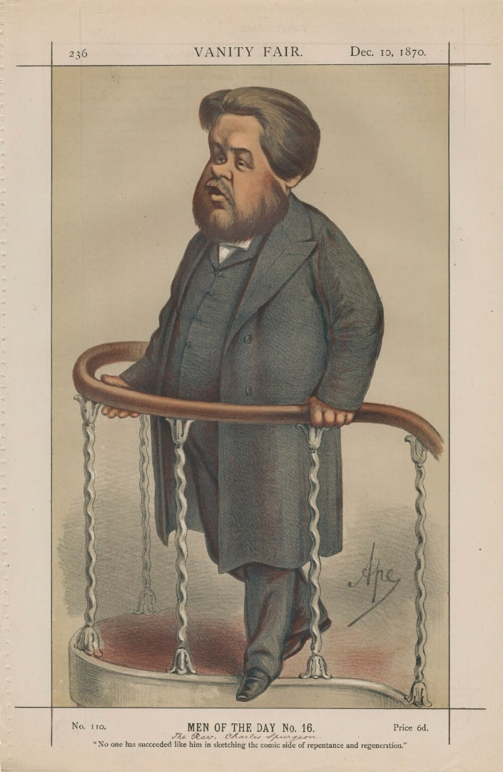 Caricature of Charles Spurgeon. Caption reads "Noone has succeeded like him in sketching the comic side of repentance and regeneration".